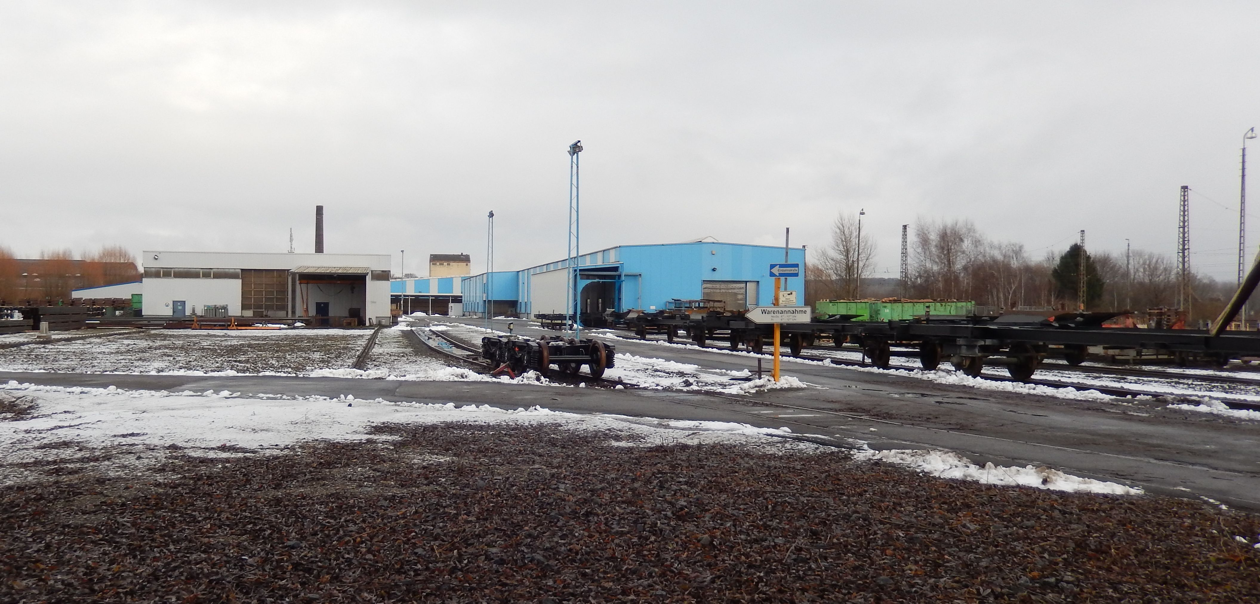 Facility of Waggonbau Graaff in Elze, Germany.